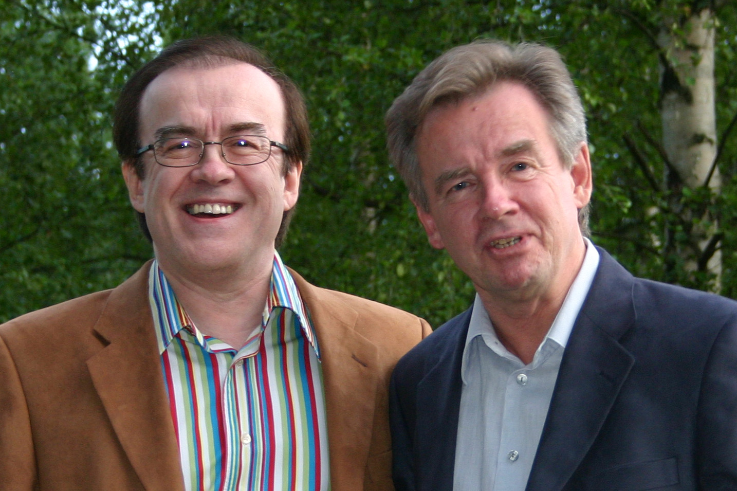 Matti ja Teppo in Vihreät Niityt music festival in the summer 2004.